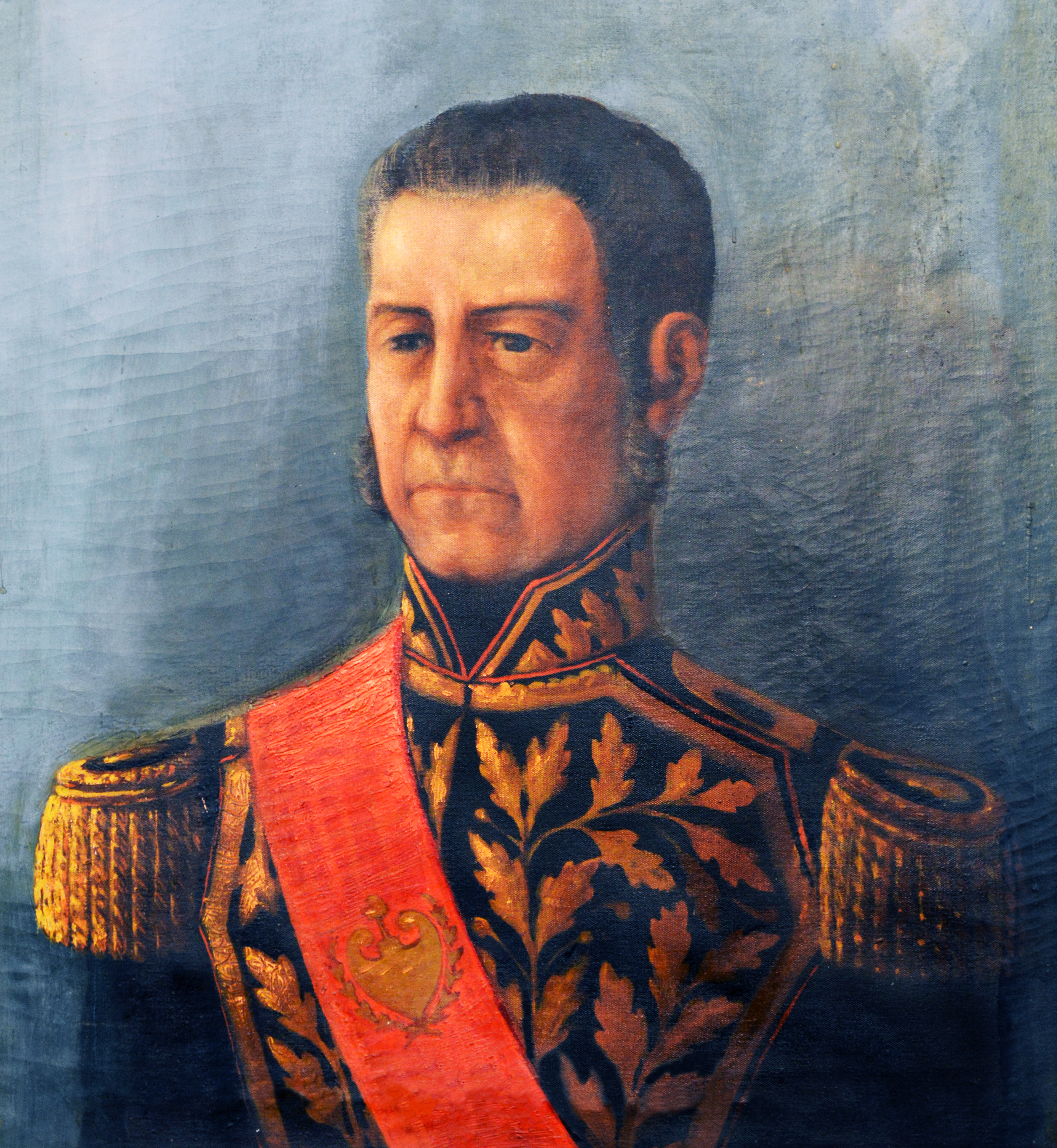 Portrait of Juan Felipe Ibarra (1787 - 1851), first governor of the province of Santiago del Estero, Argentina, from 1820 until his death in 1851. This portrait was painted in the late 19th century by Alejandro Witcomb (1835 - 1905). The portrait is exhibited to the public since 1941, in the Museo Histórico Provincial "Orestes Di Lullo" (Provincial Historical Museum "Orestes Di Lullo") in Santiago del Estero, Argentina. In this museum, there is a gallery called "Galería de los Gobernadores" (Governors's Gallery), where the portraits of the governors of the province of Santiago del Estero are exhibited, including Juan Felipe Ibarra's portrait.